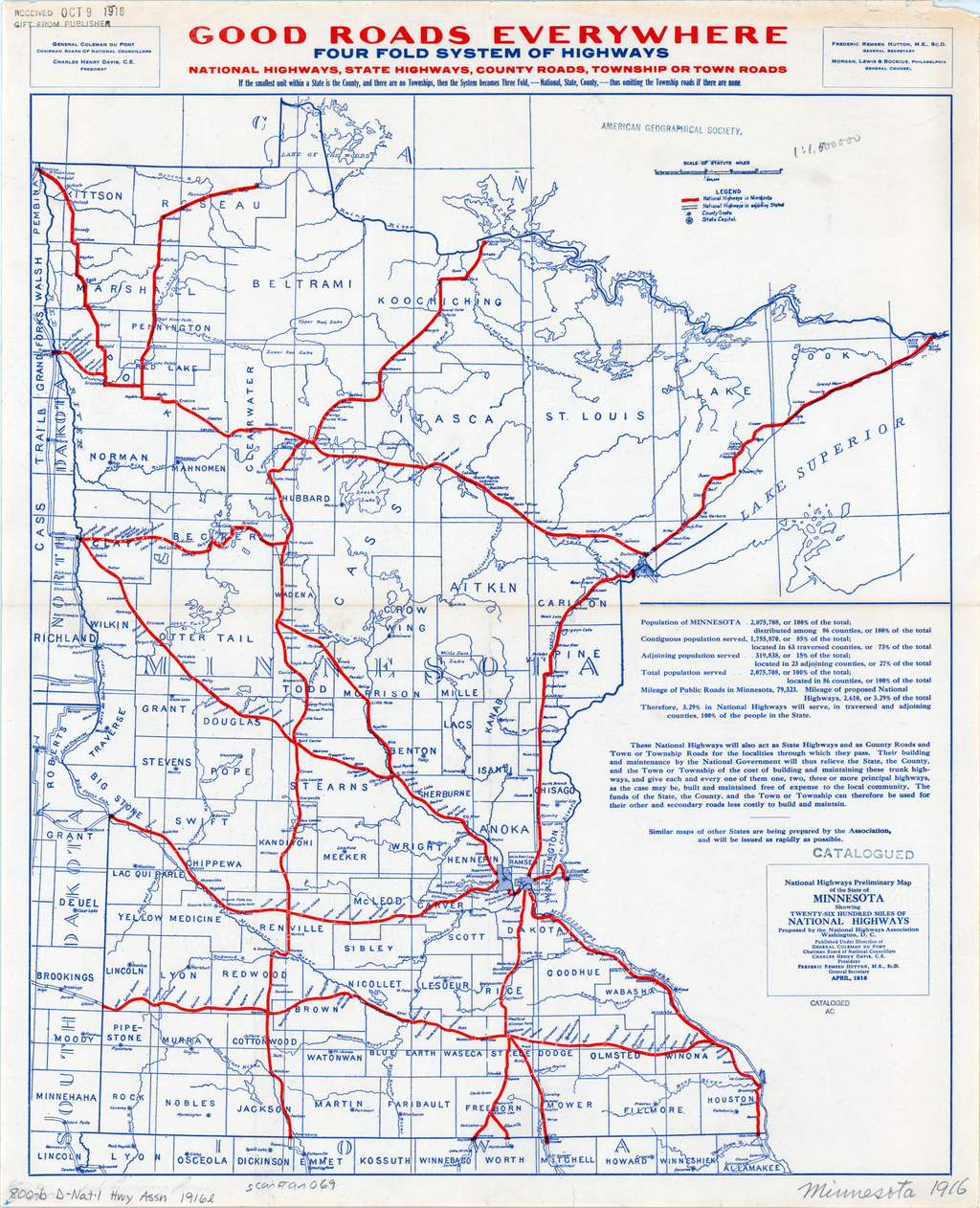 The National Highways Association (NHA) was established in 1911 to promote the development of an improved national road network in the United States. Under the slogan “Good roads for everyone!” the NHA advocated the building and permanent maintenance by the federal government of a system of 50,000 miles (some 80,500 kilometers) of highways. This map, issued by the NHA in 1916, shows 2,600 miles of national highway proposed for Minnesota. The NHA employed engineers to plan routes with the aim of maximizing the share of each state’s population located in counties through which these highways would run. The tables at the lower right give the numbers and percentage of Minnesotans that the NHA calculated would have access to these highways. Besides issuing brochures and circulars aimed at convincing citizens of the need for a national road system, the NHA was a prolific producer of maps. Cartographic work was done at an office in South Yarmouth, Massachusetts, where approximately 40 people were employed on the property of Charles Henry Davis (1865–1951), president and cofounder of the NHA. Davis believed that these maps would be helpful to a national highways commission that he hoped would be established and that they would assist the states in integrating their roads into a national system. Congress never embraced the plan put forward by the NHA, but the organization and its maps helped to promote the cause of a national road network. Highway planning; Roads